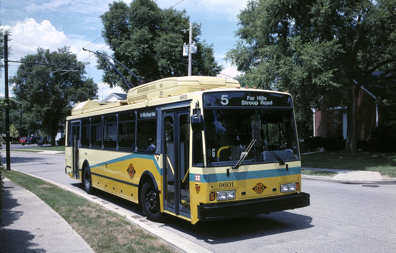 Dayton, Ohio trolleybus 9601 is a model-14TrE built by Electric Transit, Inc. (ETI) and was the very first Škoda-based trolleybus built for any American city. It was delivered in late December 1995. It is pictured at the south end of route 5-Far Hills, on Southmoor Circle (Stroop Road loop), in the town of Kettering.